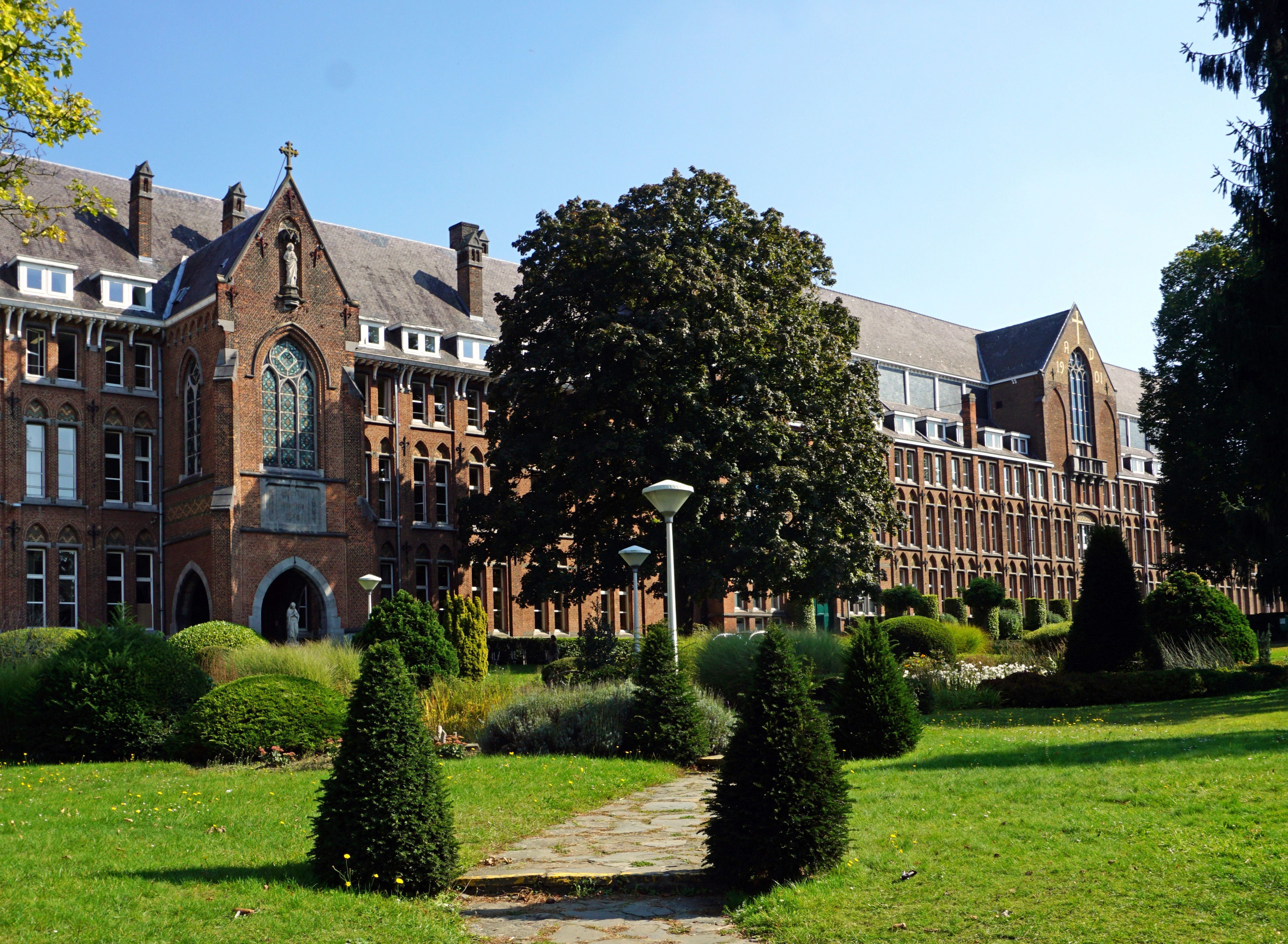 Heilig Hartinstituut Heverlee (Leuven, Belgium)